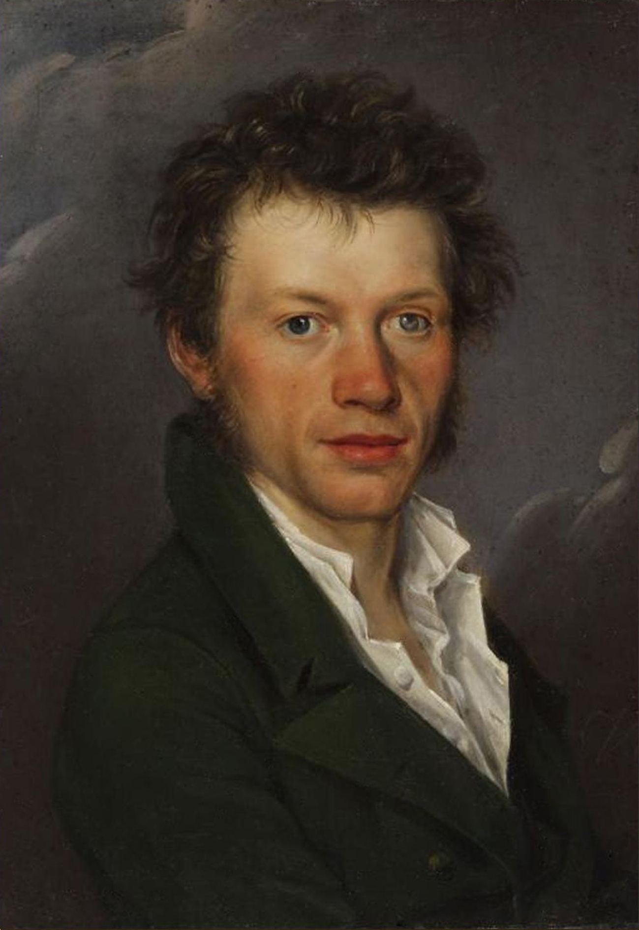 August Mattias Hagen